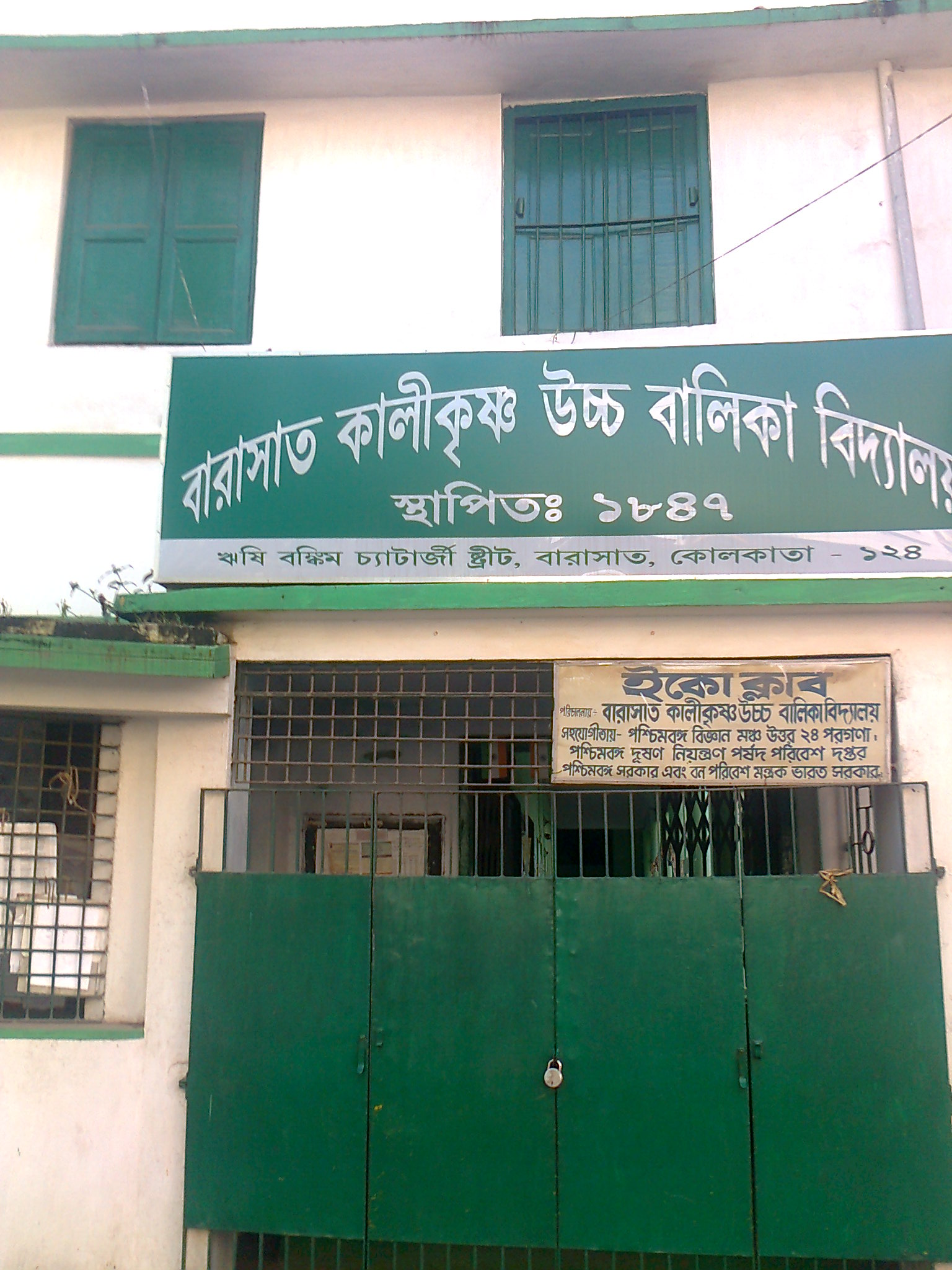 Barasat K.K. Girl's High School, Rishi Bankim Chatterjee Street, Barasat, West Bengal, India